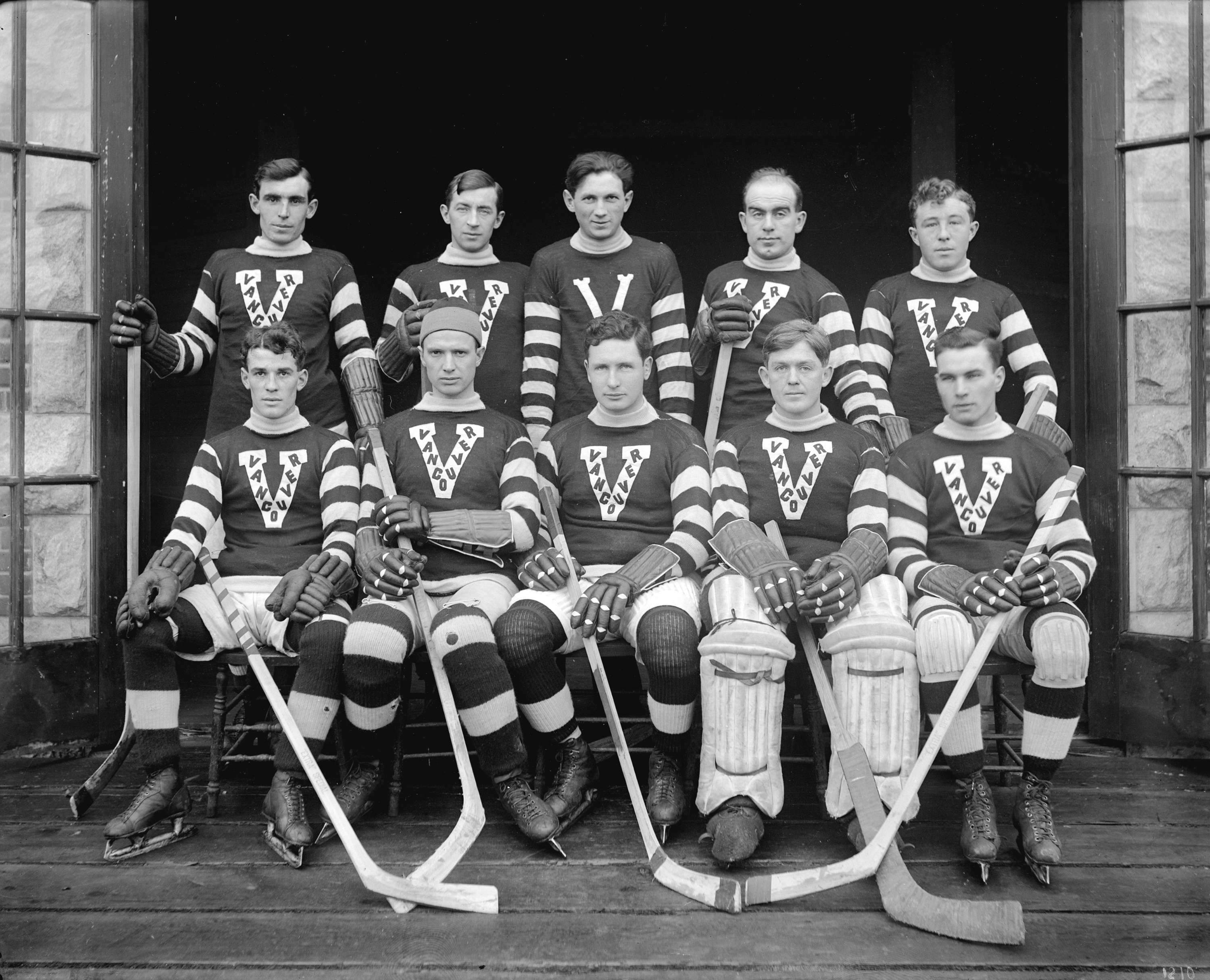 1913–14 Vancouver Millionaires. Photograph is dated from the uniform style which was unique to the 1913–14 season. Back row: Smokey Harris, Sibby Nichols, Pete Muldoon, Cyclone Taylor, Chuck Clark Front row: Russell "Rusty" Lynn, Si Griffis, Frank Patrick, Allan Parr, Frank Nighbor